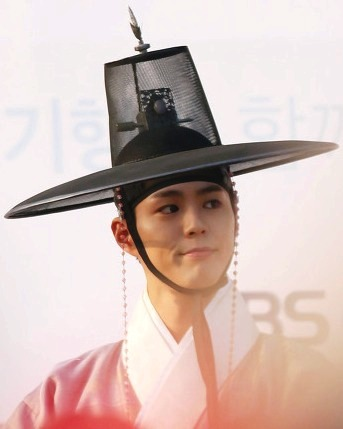 161019 구르미 그린 달빛 팬사인회